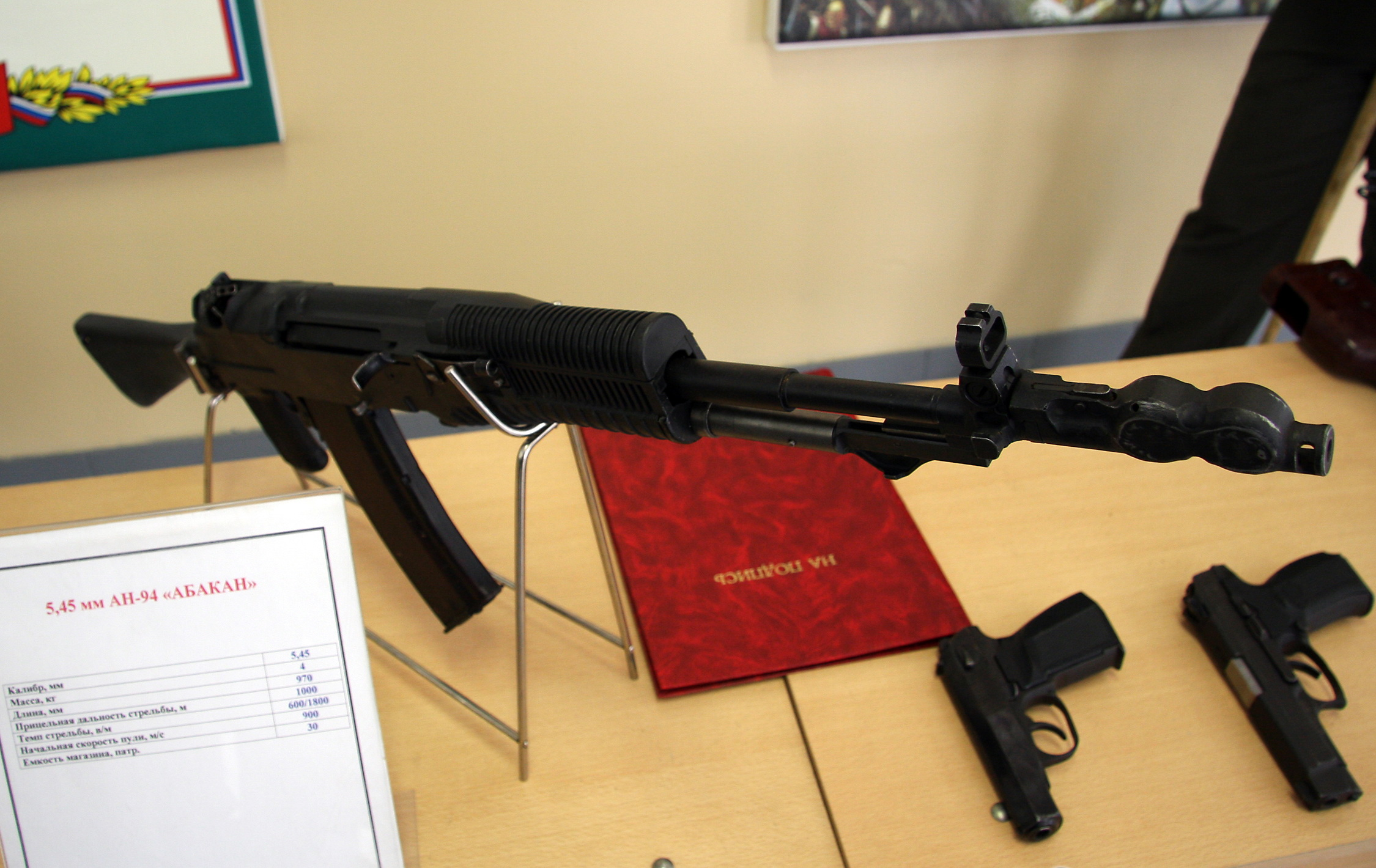 AN-94 Abakan